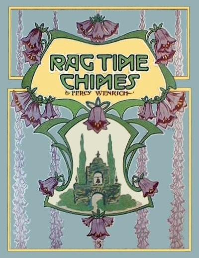 Percy Wenrich, Ragtime Chimes, 1911